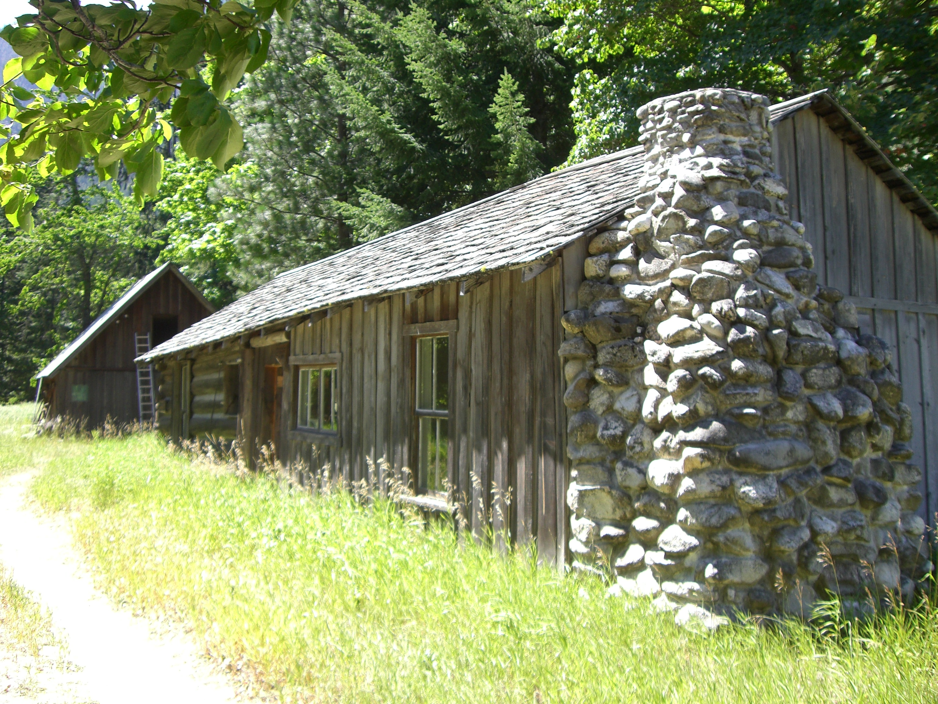 Buckner Homestead Historic District, Buzzard-Buckner Cabin built in 1890; in the Lake Chelan National Recreation Area near Stehekin, Washington